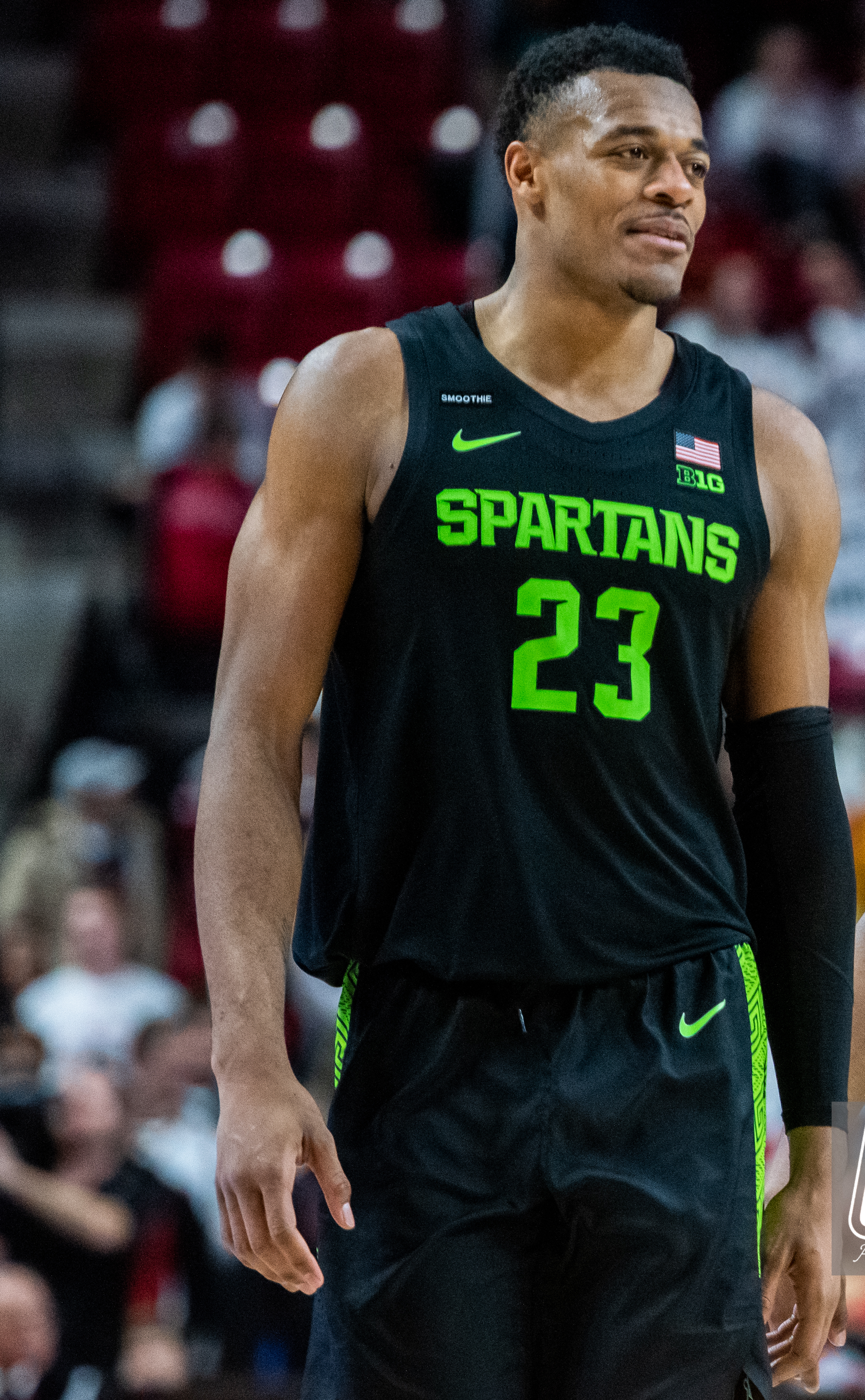 Xavier Tillman